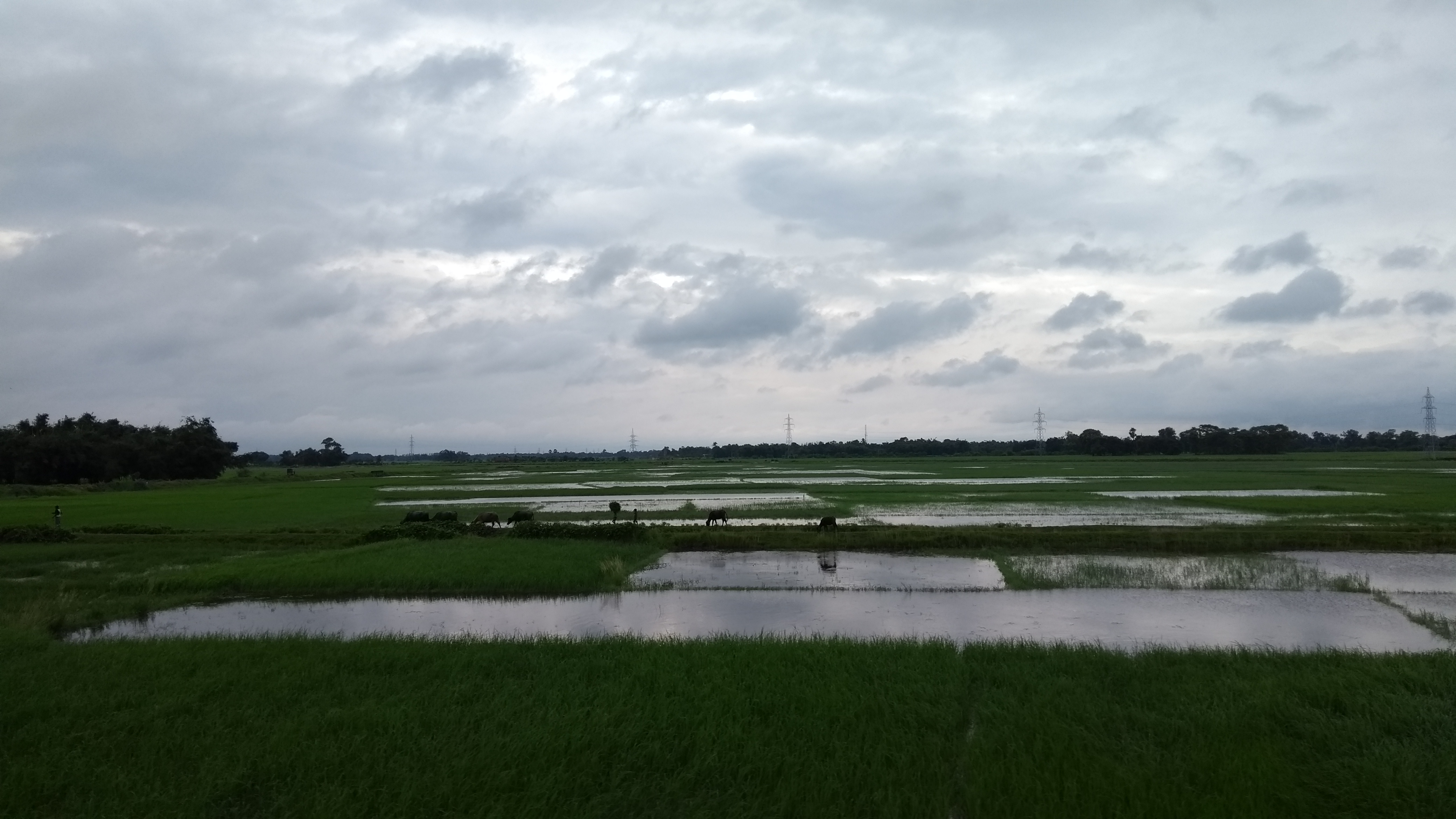 Paddy Plantations near Saharsa Town, Koshi Anchal, Bihar